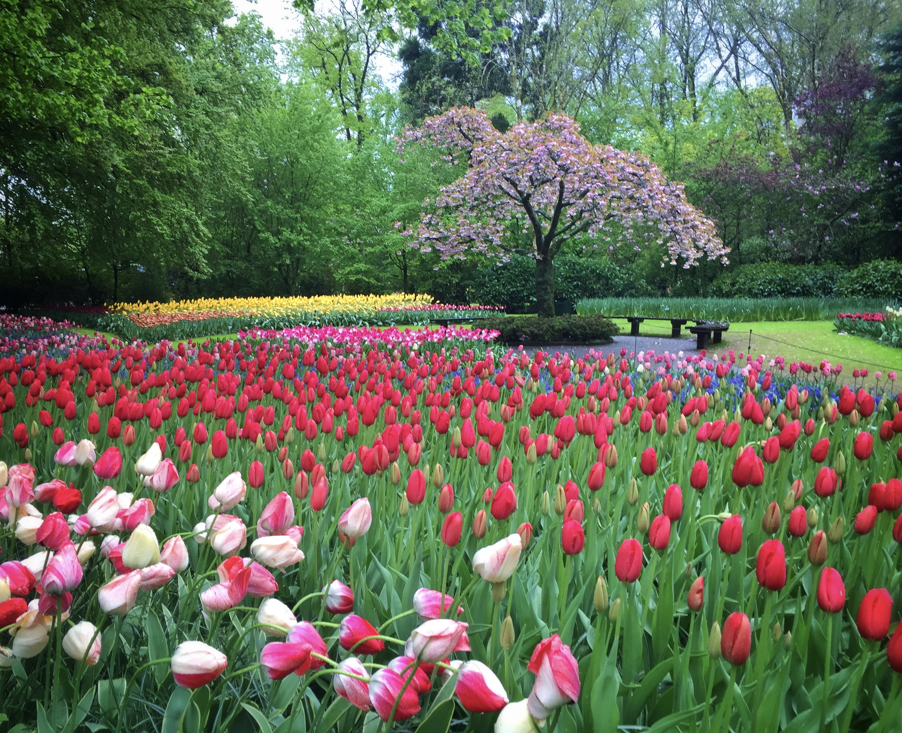 Red and pink tulips at Keukenhof gardens in Lisse, Netherlands.